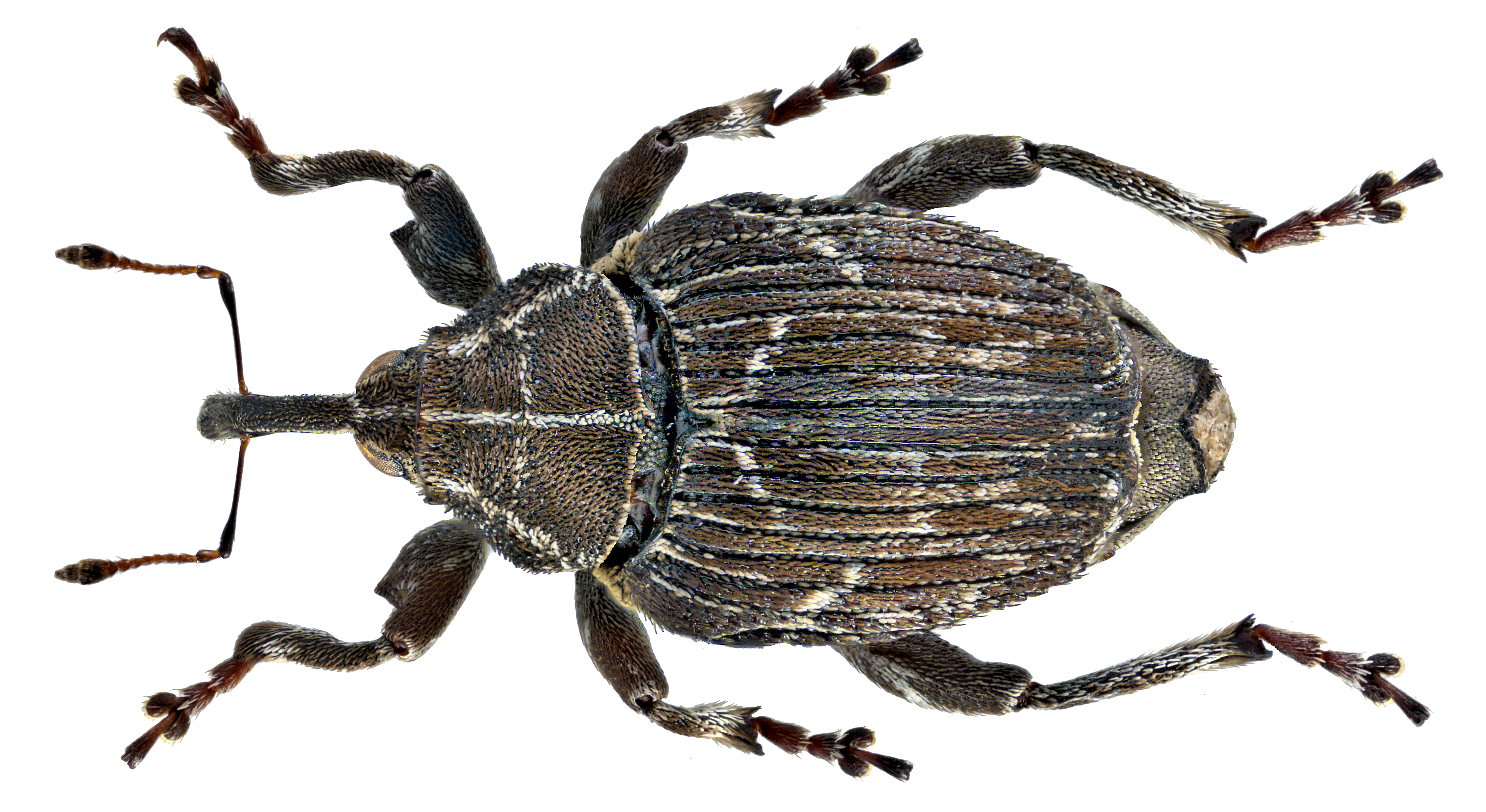 Family: Curculionidae Size: 5,4 mm (4,4-5,5 mm) Origin: Southwest Asia, Europe, North Africa Ecology: development in the roots of Echium Location: Germany, Mecklenburg-Vorpommern, Steinfort leg. det. C.Braunert, 24.VI.1998 Photo: U.Schmidt, 2014